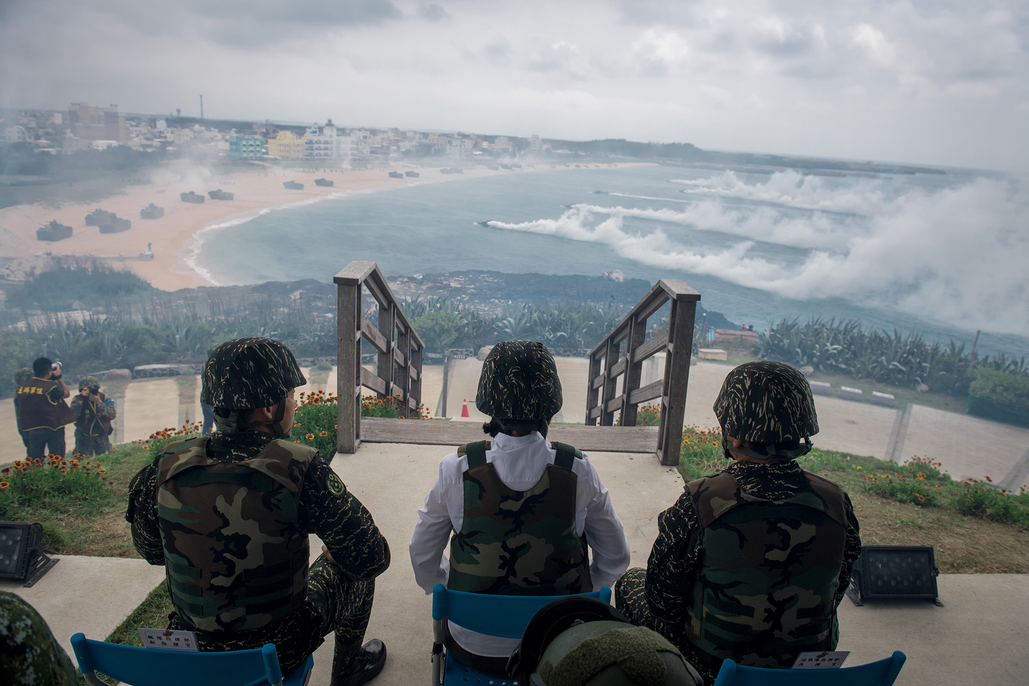 授權方式及範圍：中華民國總統府│政府網站資料開放宣告 Authorization Method & Scope: Office of the President, Republic of China (Taiwan) | Government Website Open Information Announcement